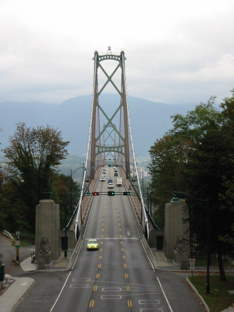 The Lions' Gate Bridge (First Narrows Bridge) from the south end in Stanley Park, North Vancouver, British Columbia, Canada